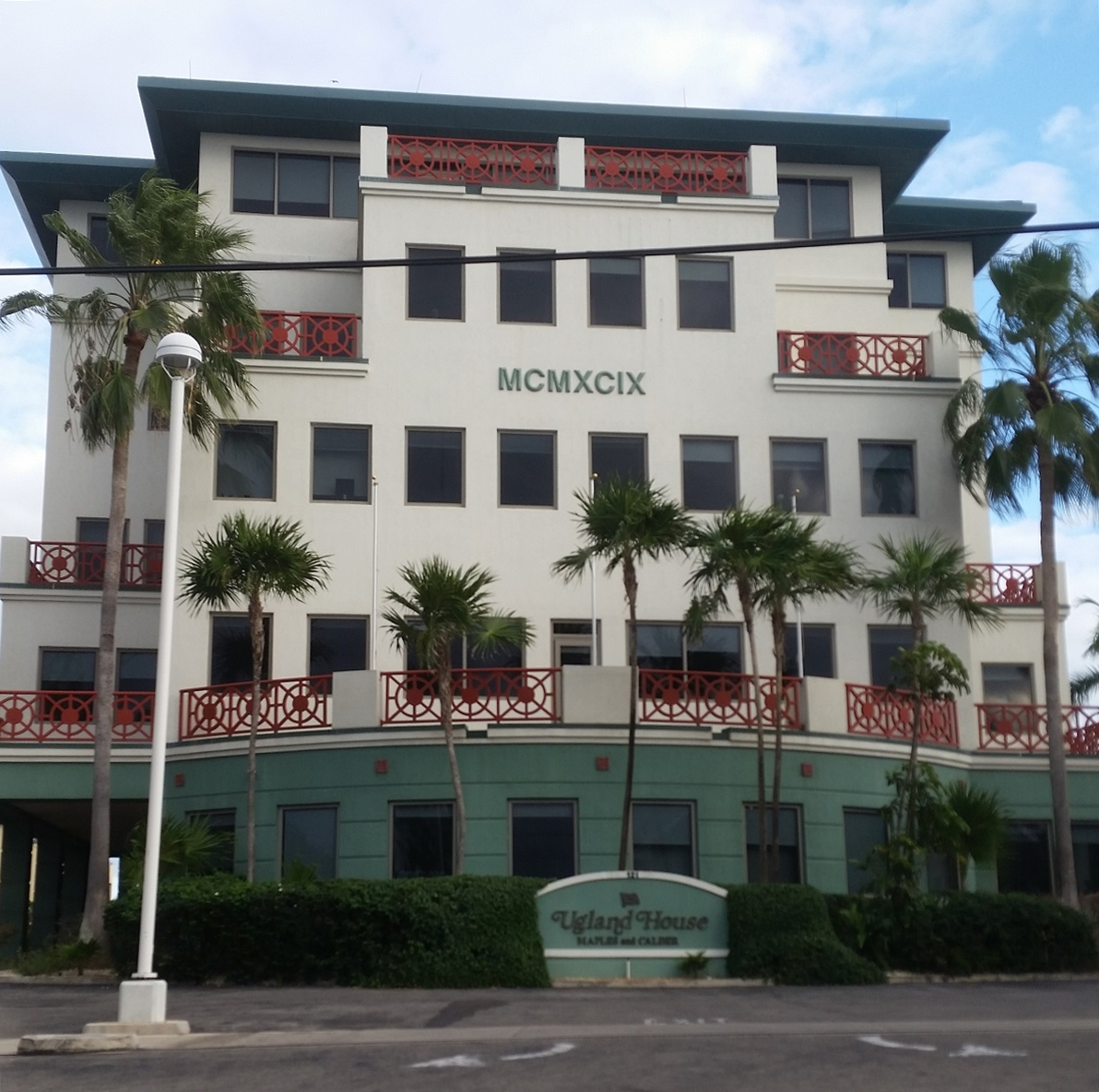 Depicted place: Ugland House